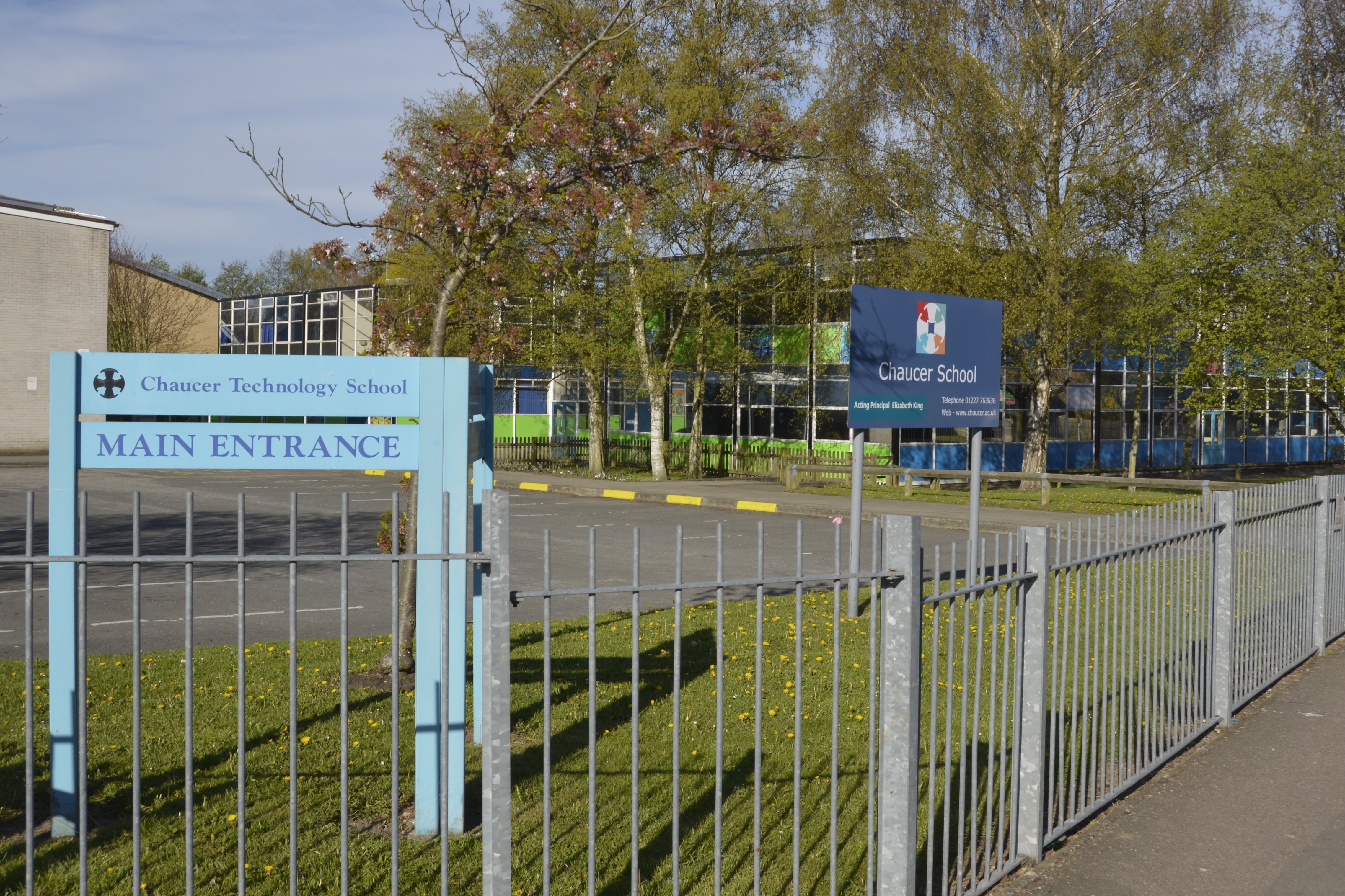 Chaucer School, Canterbury, Kent, UK showing old Technology School branding and the new (2012?) branding